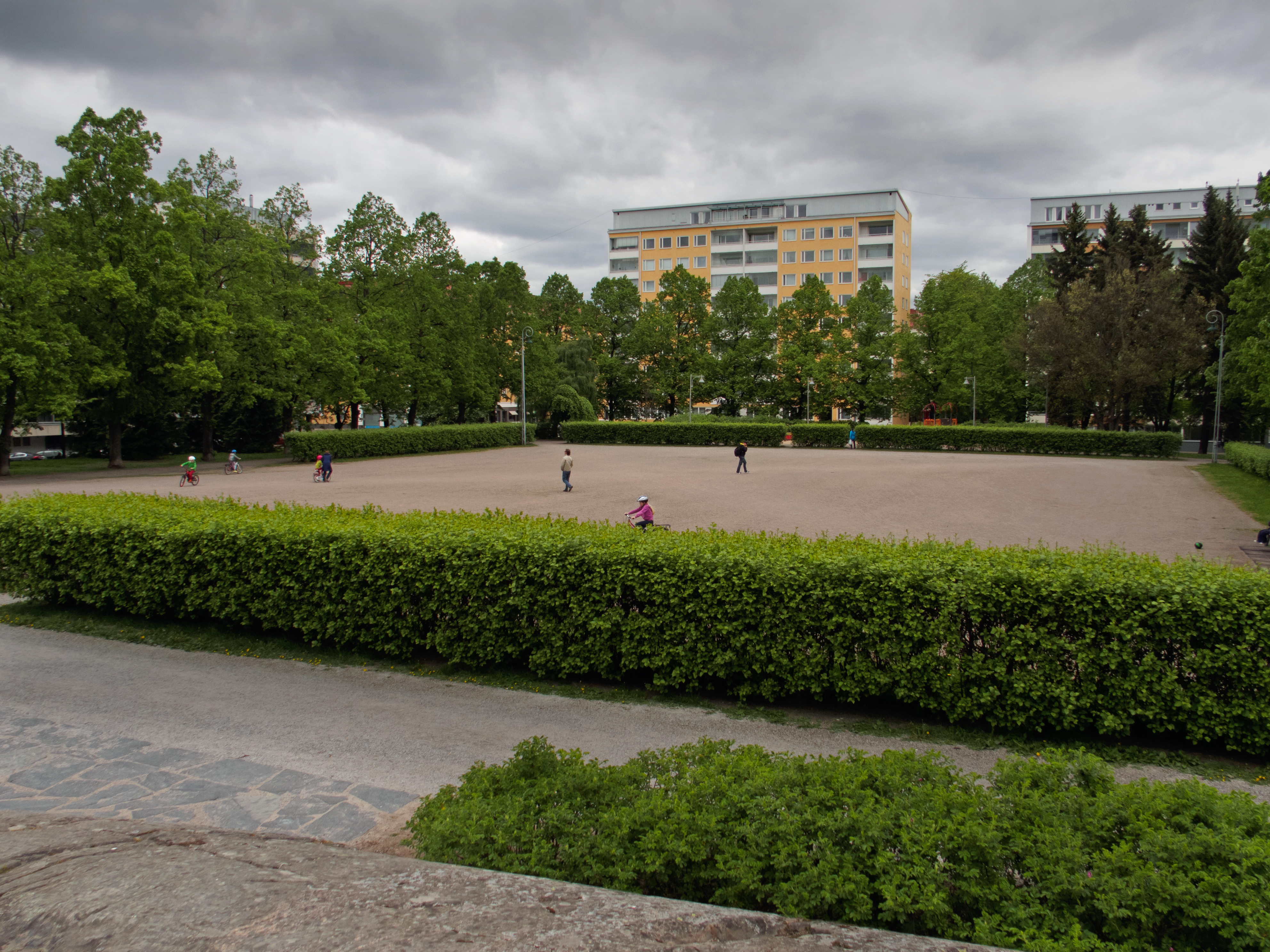 The Mannerheim Park in central Turku, surrounded by streets Puistokatu, Puutarhakatu, Koulukatu, and Rauhankatu.